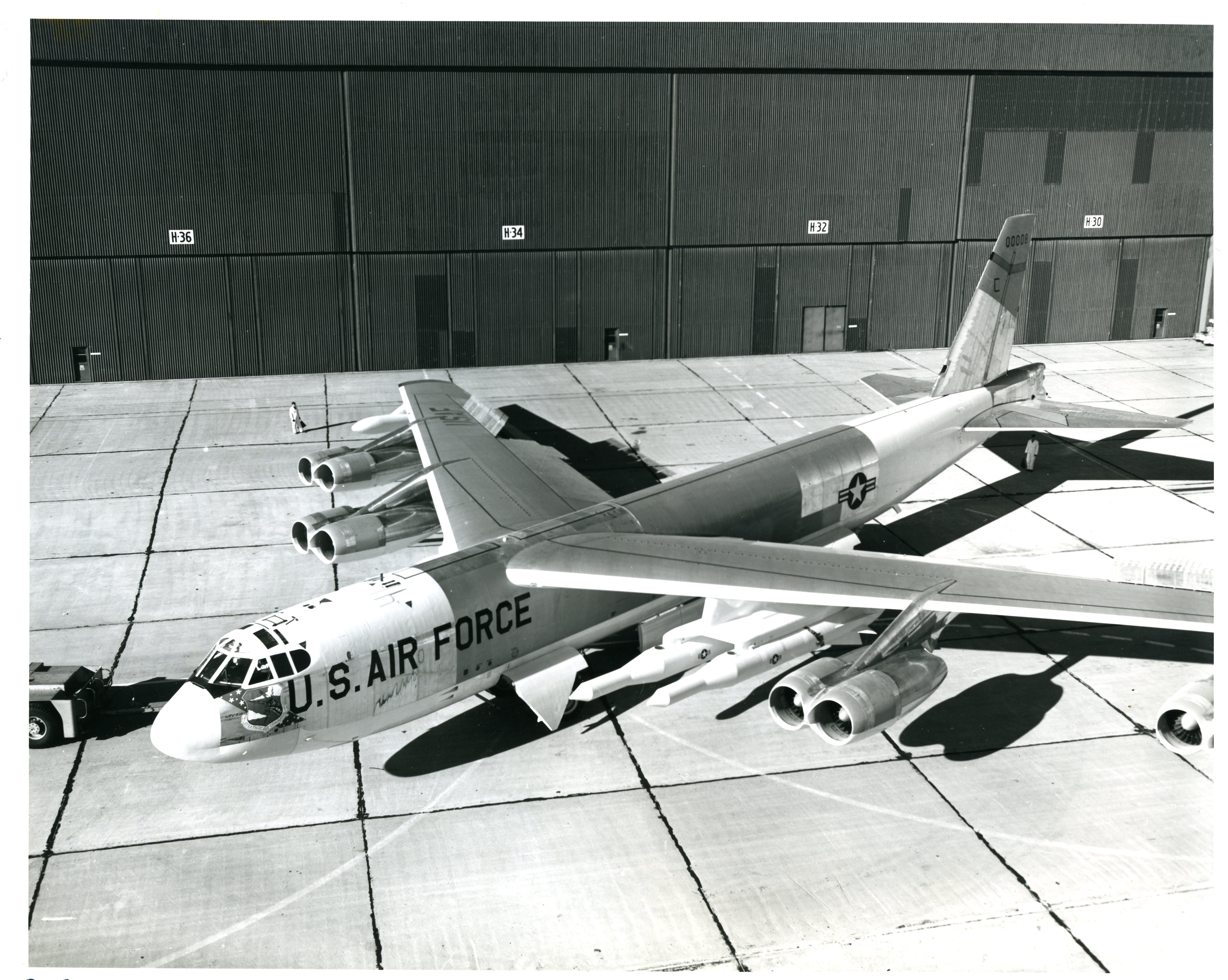 B-25H Rollout P26183